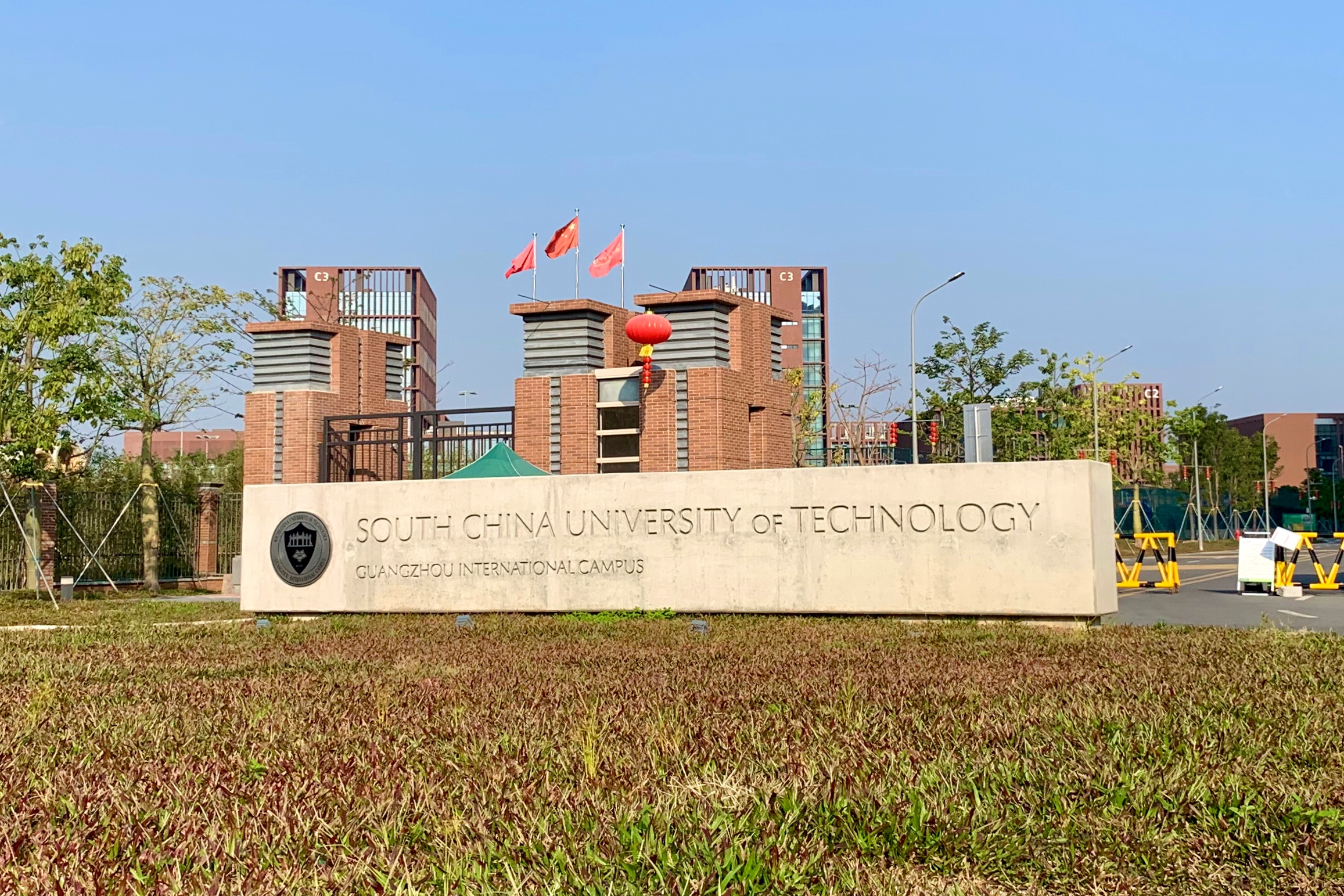 Southwest Entrance of Guangzhou International Campus (GZIC), South China University of Technology (SCUT).